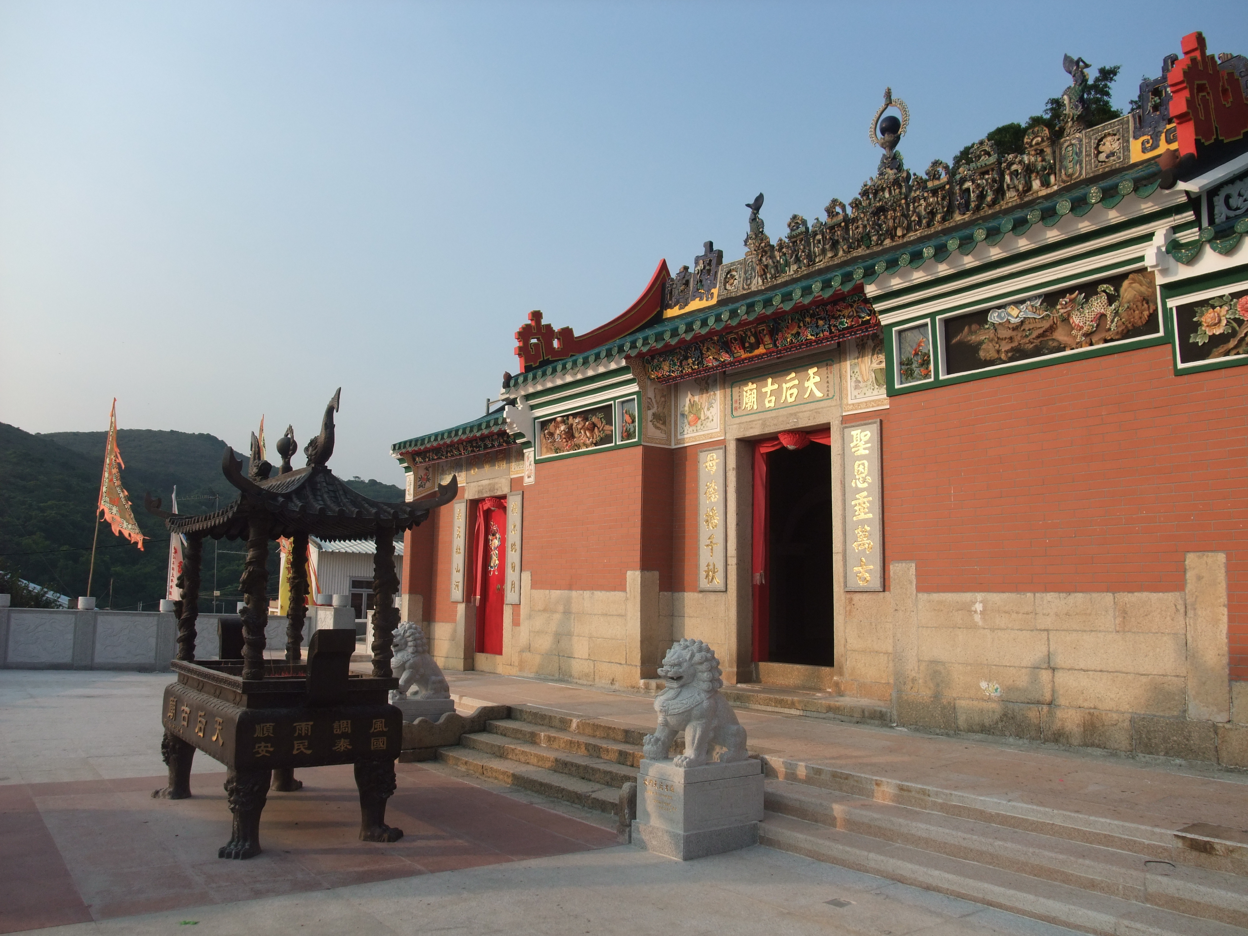 Photo of Tap Mun Tin Hau Temple